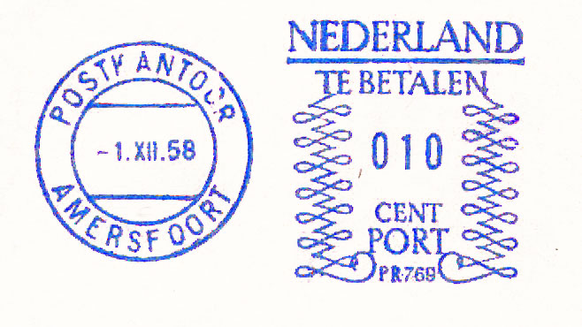 Meter stamp catalog image, Netherlands type PD2